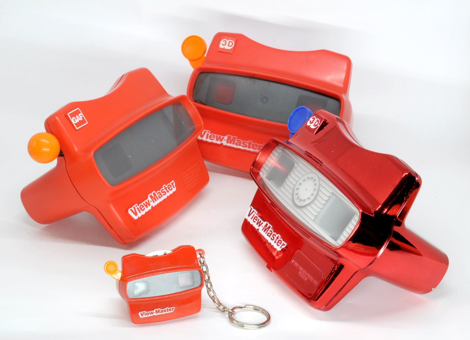 View-Master Model L